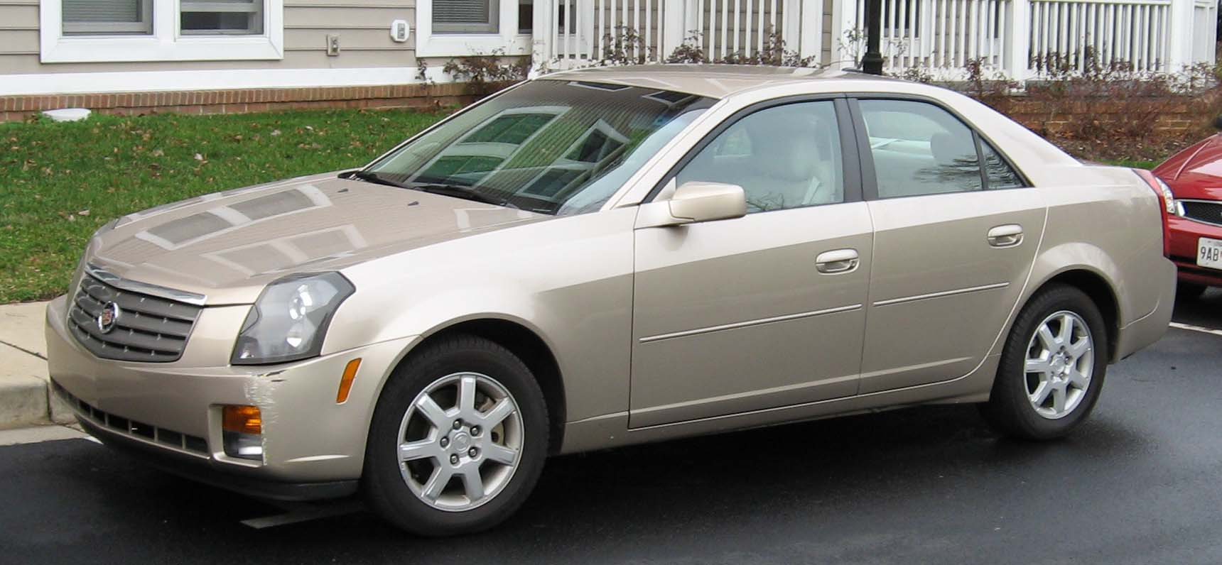 2003-2007 Cadillac CTS photographed in USA.